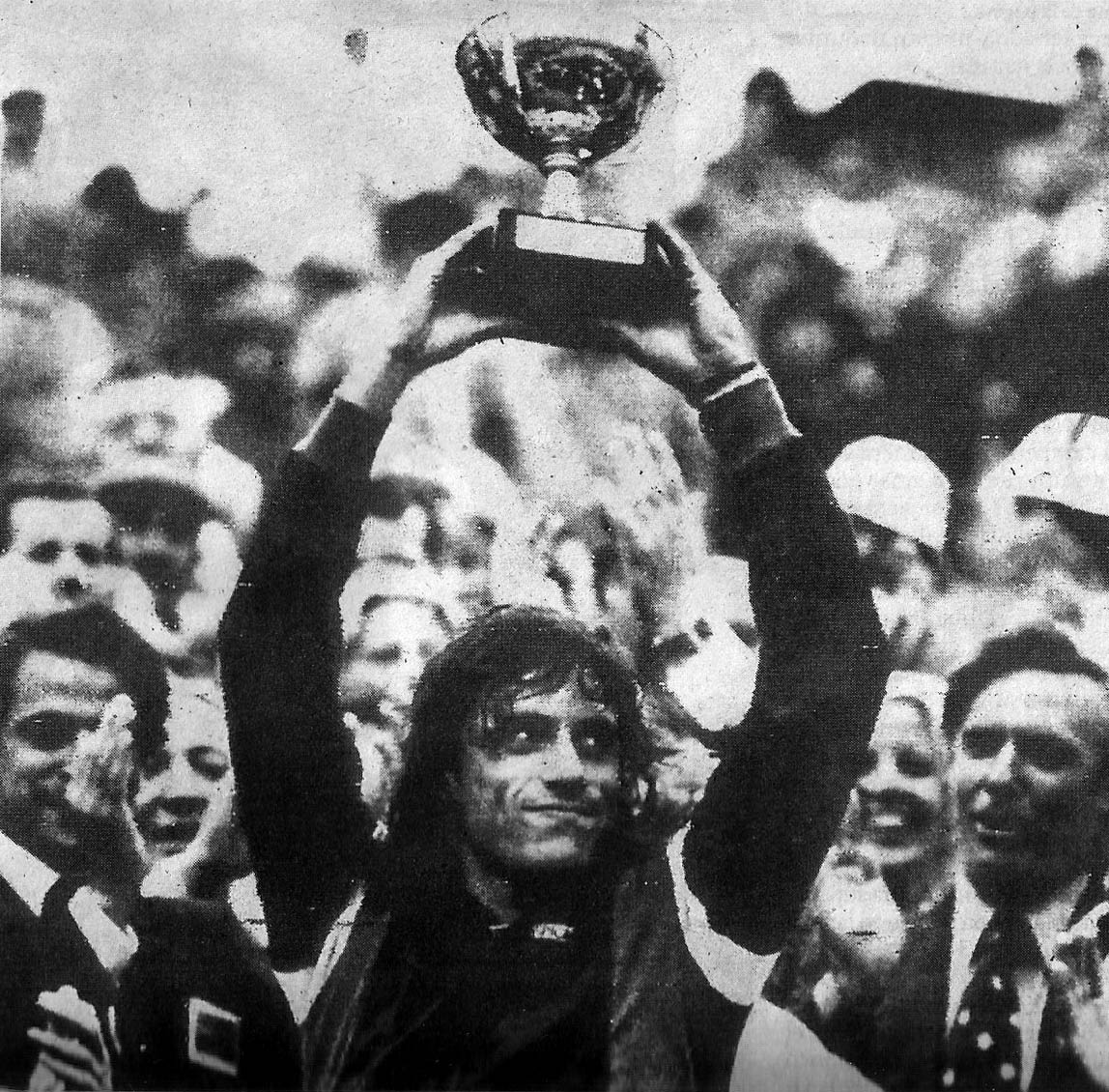 Guillermo Vilas holding the cup won at Roland Garros (French Open).